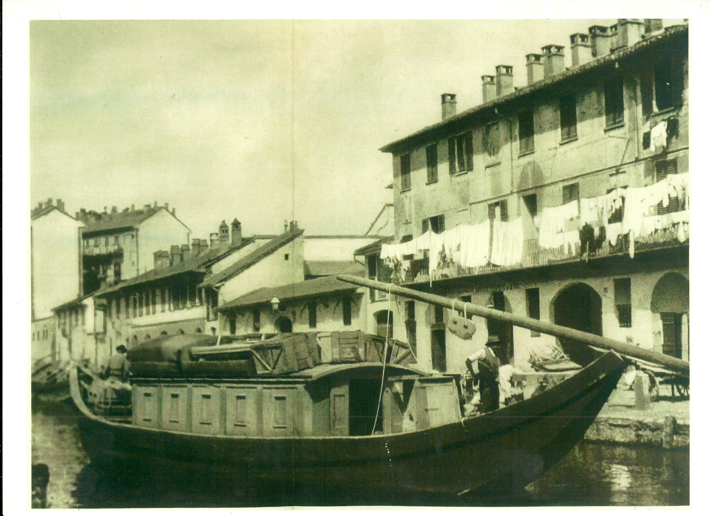 Milano, Naviglio Grande. "El Barchett de boffalora" (busboat) nel 1886. (Publied in 1886 in "I Navigli", autore ed editore sconosciuti) sconosciuti)